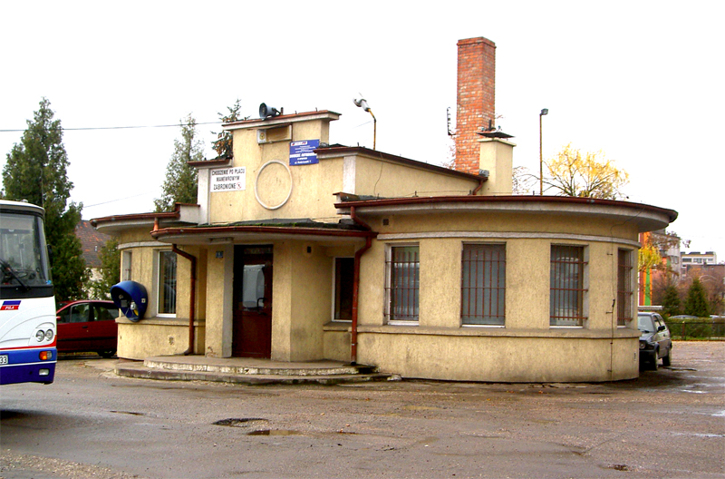 Bus Station, Main Building; Wyrzysk, Poland